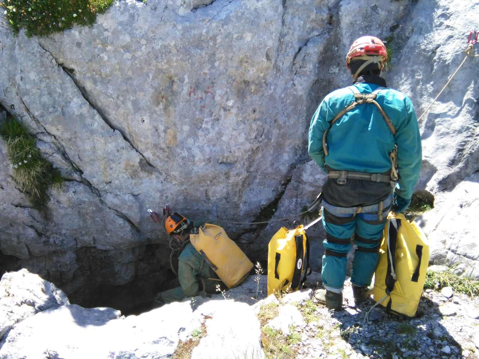 Speleologists entering BU-56 Illaminako Ateak cave. Campaign of 2018.